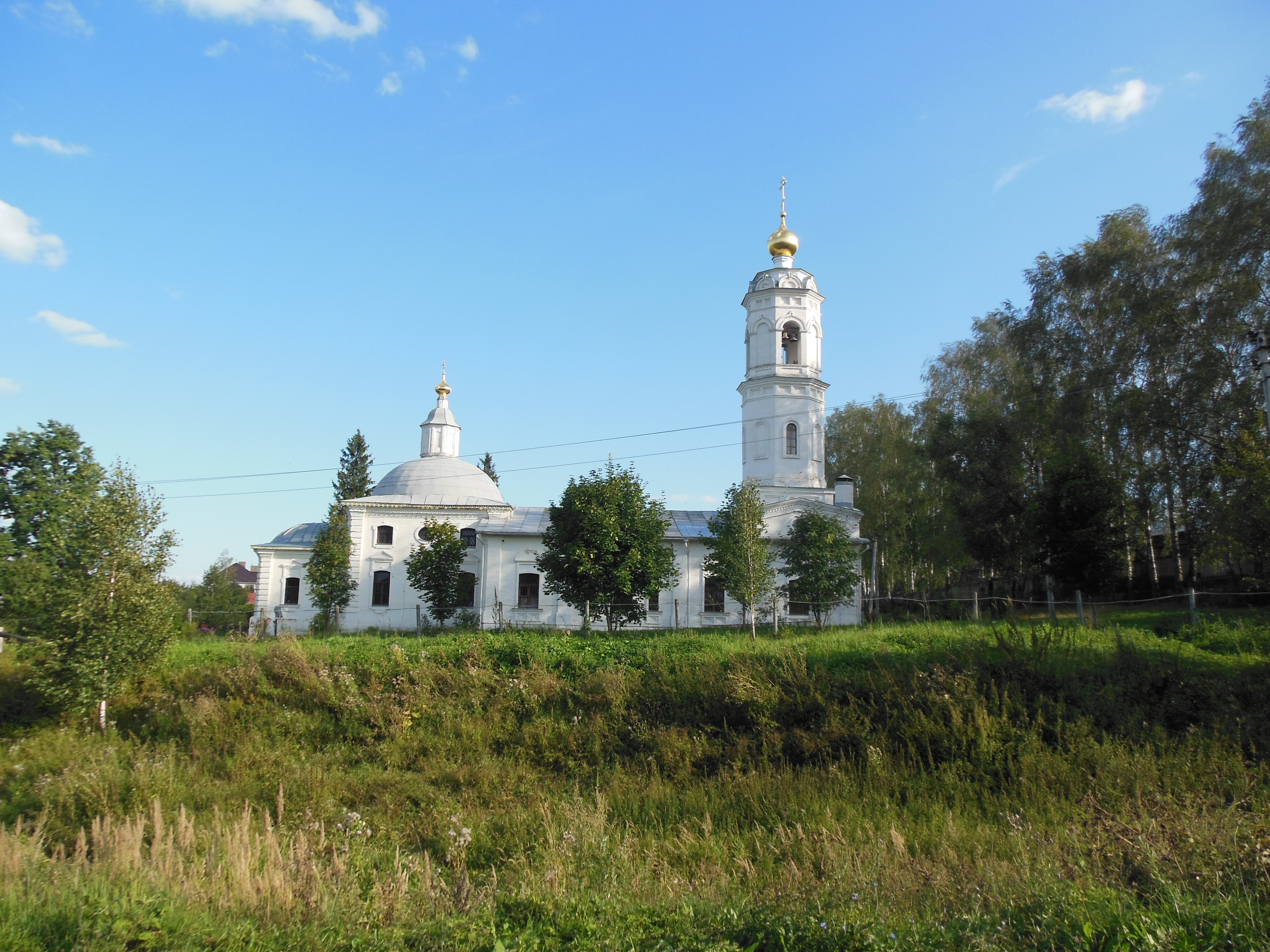 Church of the Epiphany Krasniy (Istrinsky District), Russia.